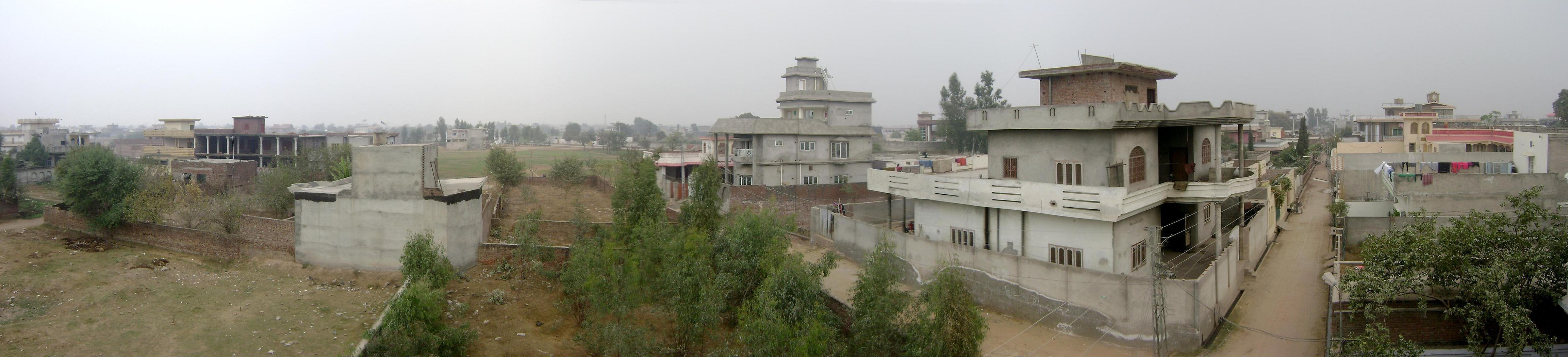 Its A Colony in Jhelum City Behind the Becone House School Jhelum